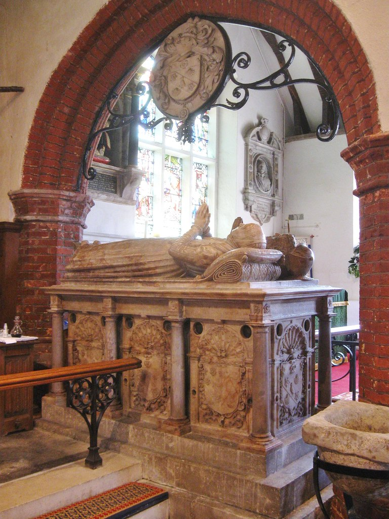 Memorial to John, the first Baron Petre. Ingatestone parish Church in Ingatestone , Essex, England. This fine alabaster memorial in the North chapel of St Mary's church, shows John Petre, created 1st Baron Petre of Writtle, in the county of Essex in 1603. John died in 1613. His wife, who died in 1624 lies beside him. They lived at the nearby manor house Ingatestone Hall.